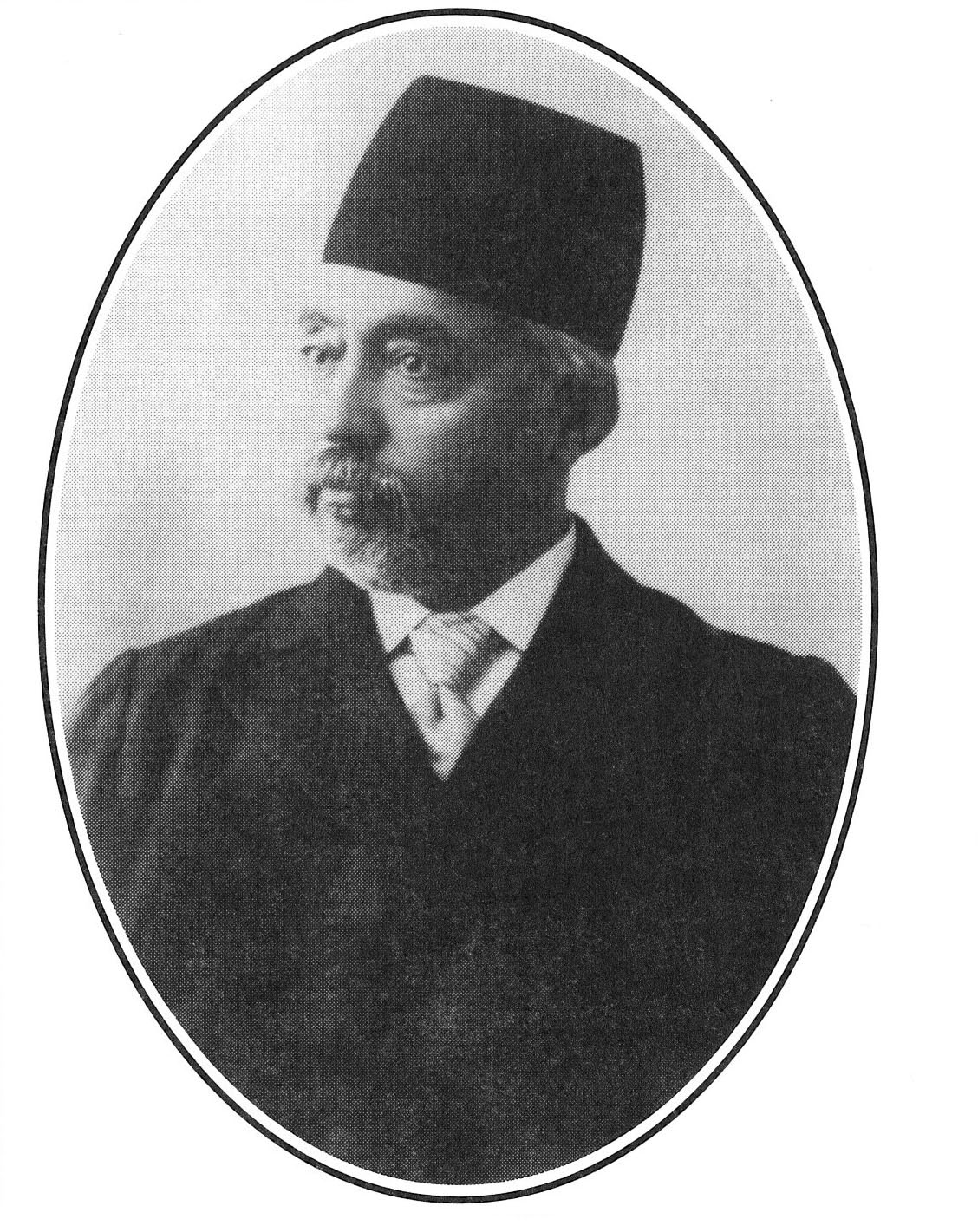 Photo of Mortez Qholi Khan Hedayat (Sani-al-dowleh) the First Chairman of the First Majlis Shora Melli, 1285